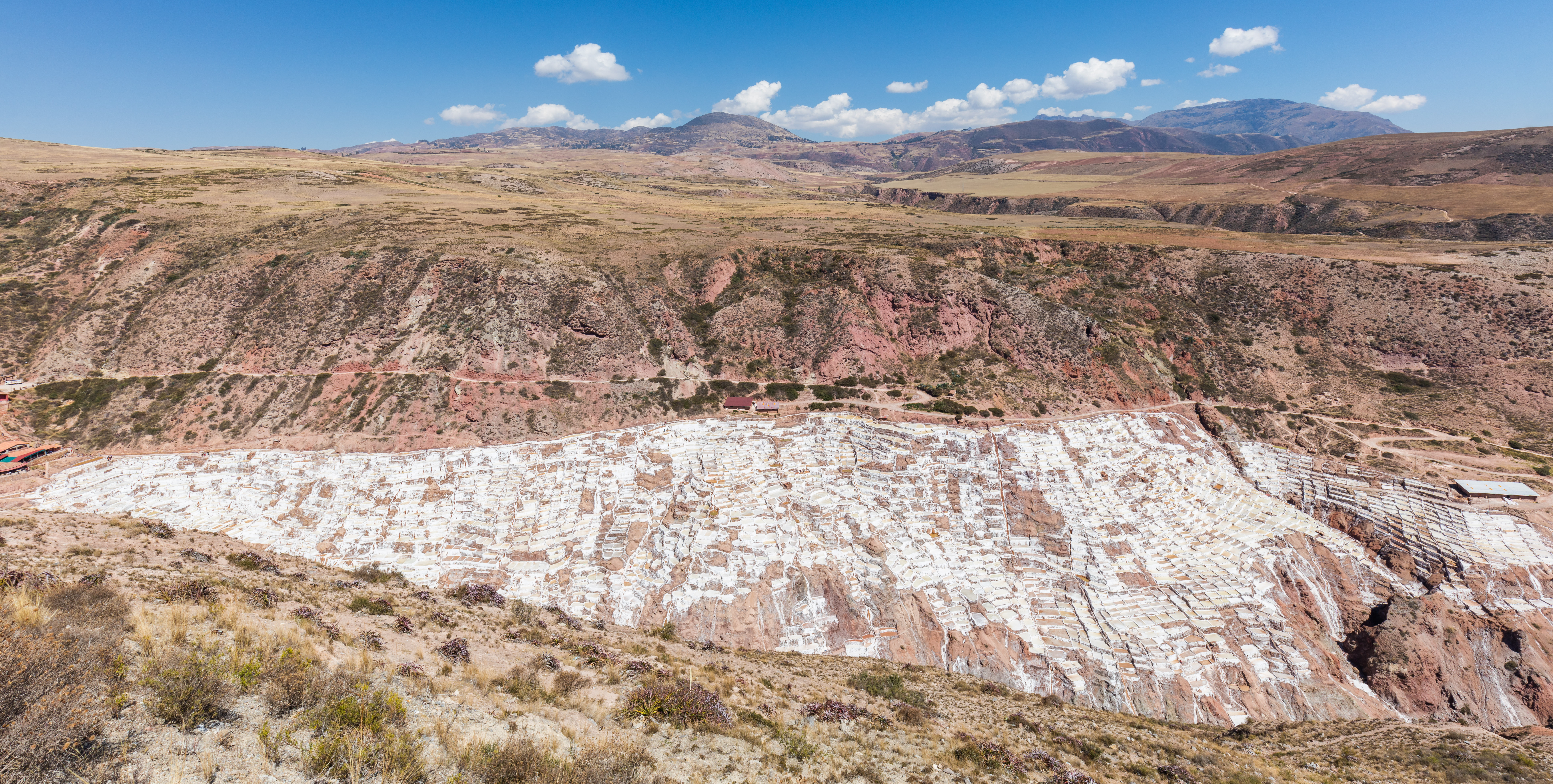 Salineras (salt evaporation ponds) in Maras, Peru